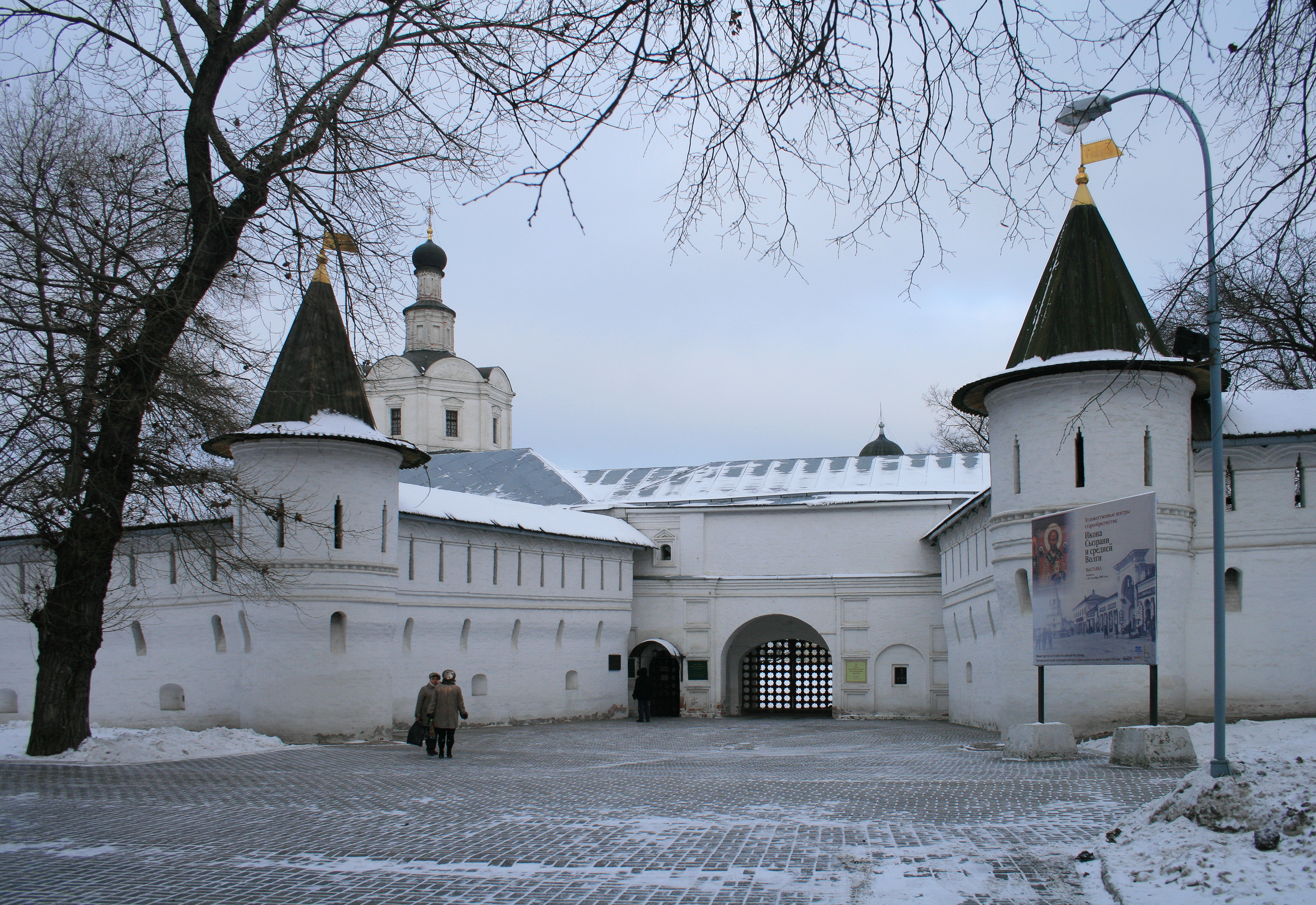 Holу Gate of the Andronikov Monastery, XVII c, Moscow